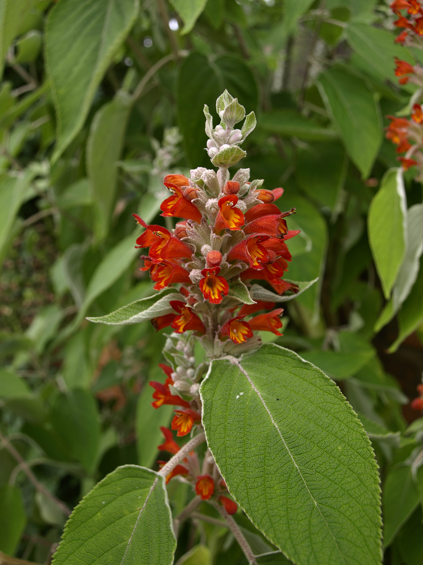 Stockton Bury Gardens, Herefordshire, UK